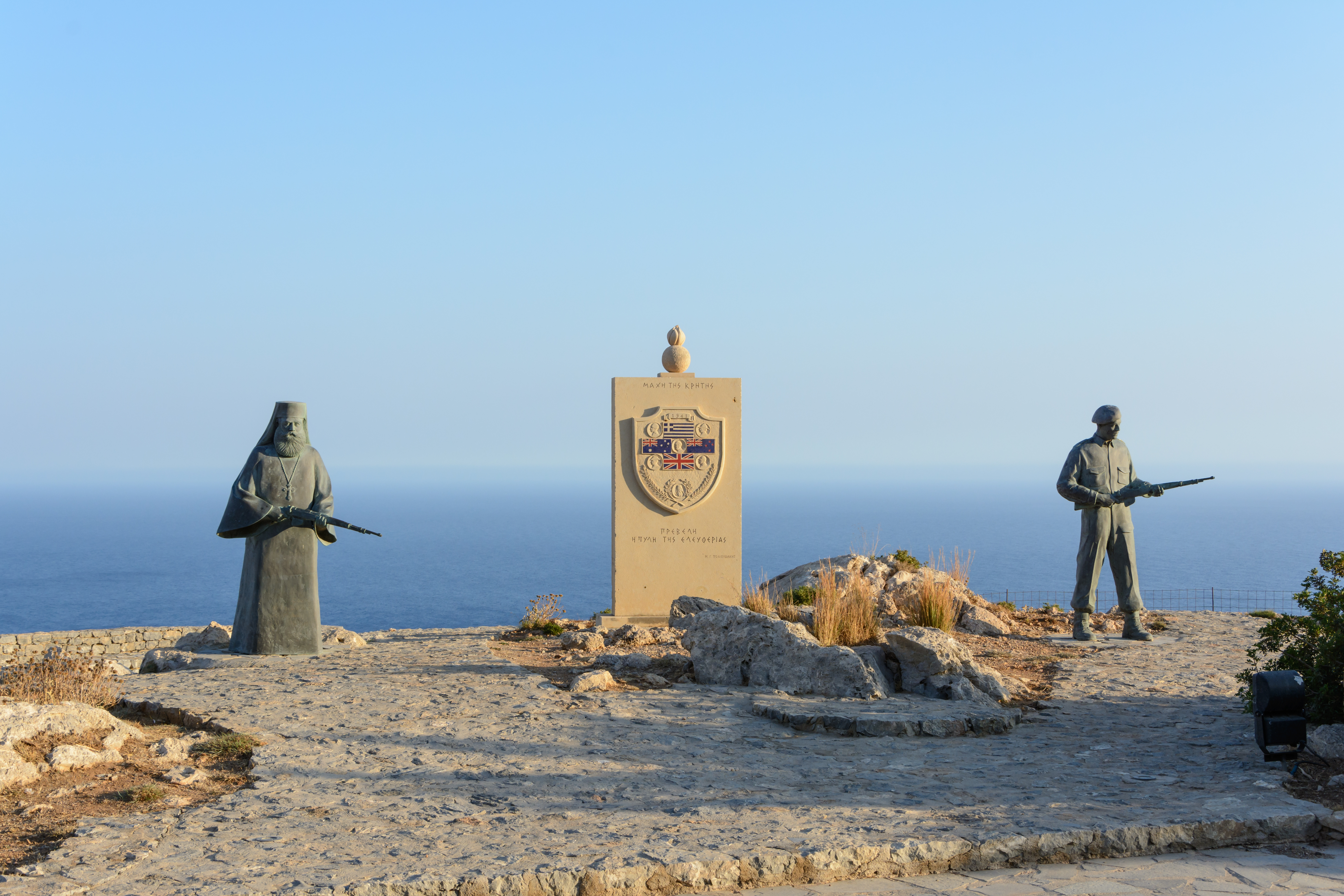 Memorial of Preveli for Resistance and Peace - the armed statues of Abbot Agathangelos Lagouvardos and an allied soldier commemorate the resistance of the monks of Moni Preveli against the German occupation in WW2